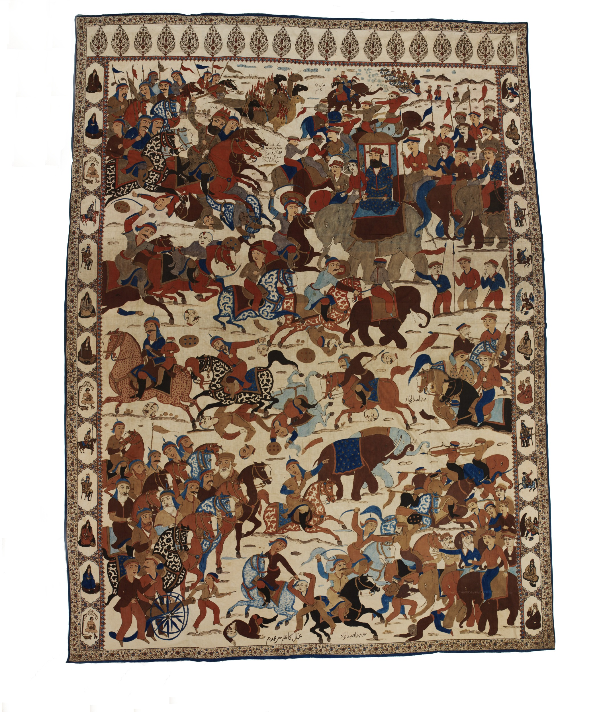 Four complete and one partial width of plain weave cotton, joined vertically with block printed borders and hand drawn and painted central design depicting Nadir Shah's army defeating Muhammad Shah's army in 1739, at the Battle of Karnal. Some of the soldiers depicted are standing or either on horseback or riding elephants. They are holding spears and swords and some of the soldiers have been beheaded. In the bottom left corner of the image is a cannon.